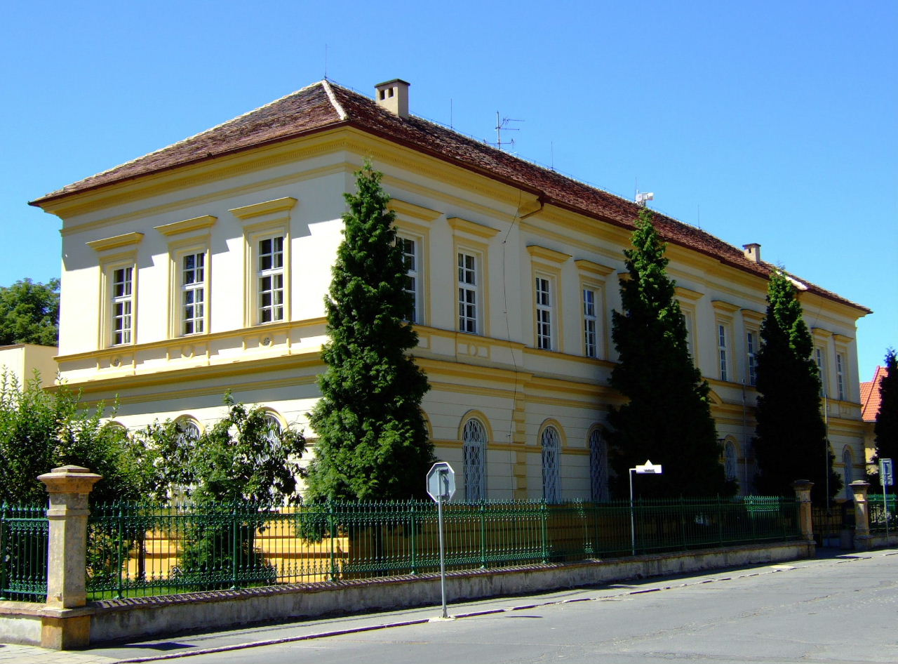 Ghetto Museum in fromer school building next to NE corner of central square of Terezín. Aufnahme: 1. Juli 2006 Url